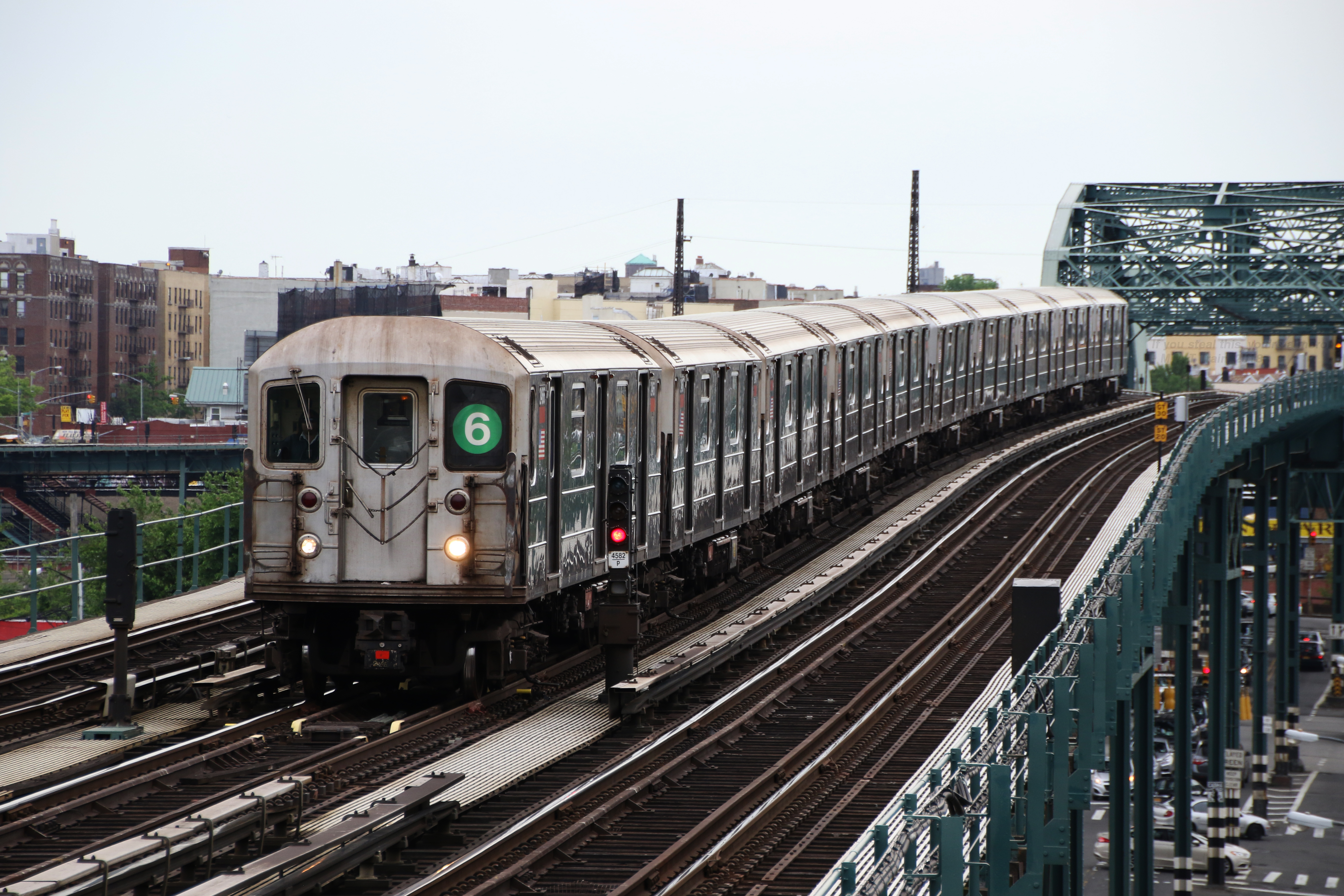 Pelham Bay Park-bound MTA NYC Subway 6-express train of Bombardier Transportation R62A cars passing Elder Ave.